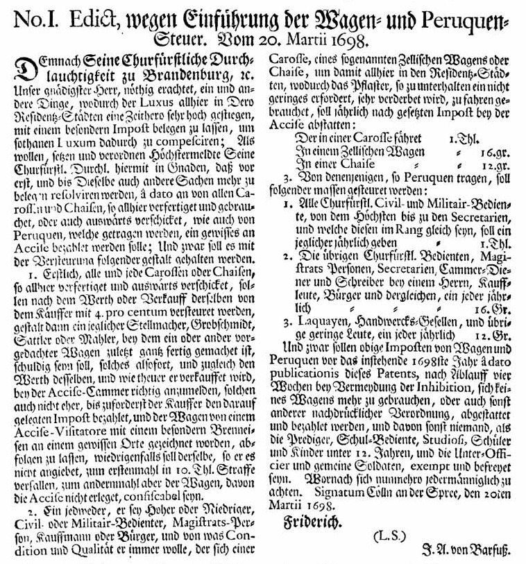 Tax on periwigs, Brandenburg-Prussia 1698